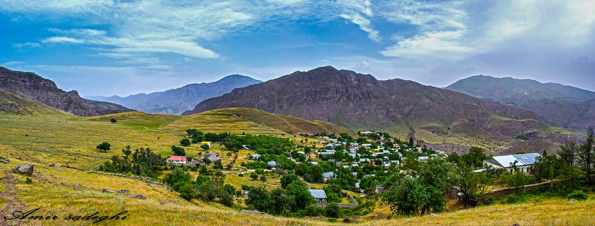 mir taleghan